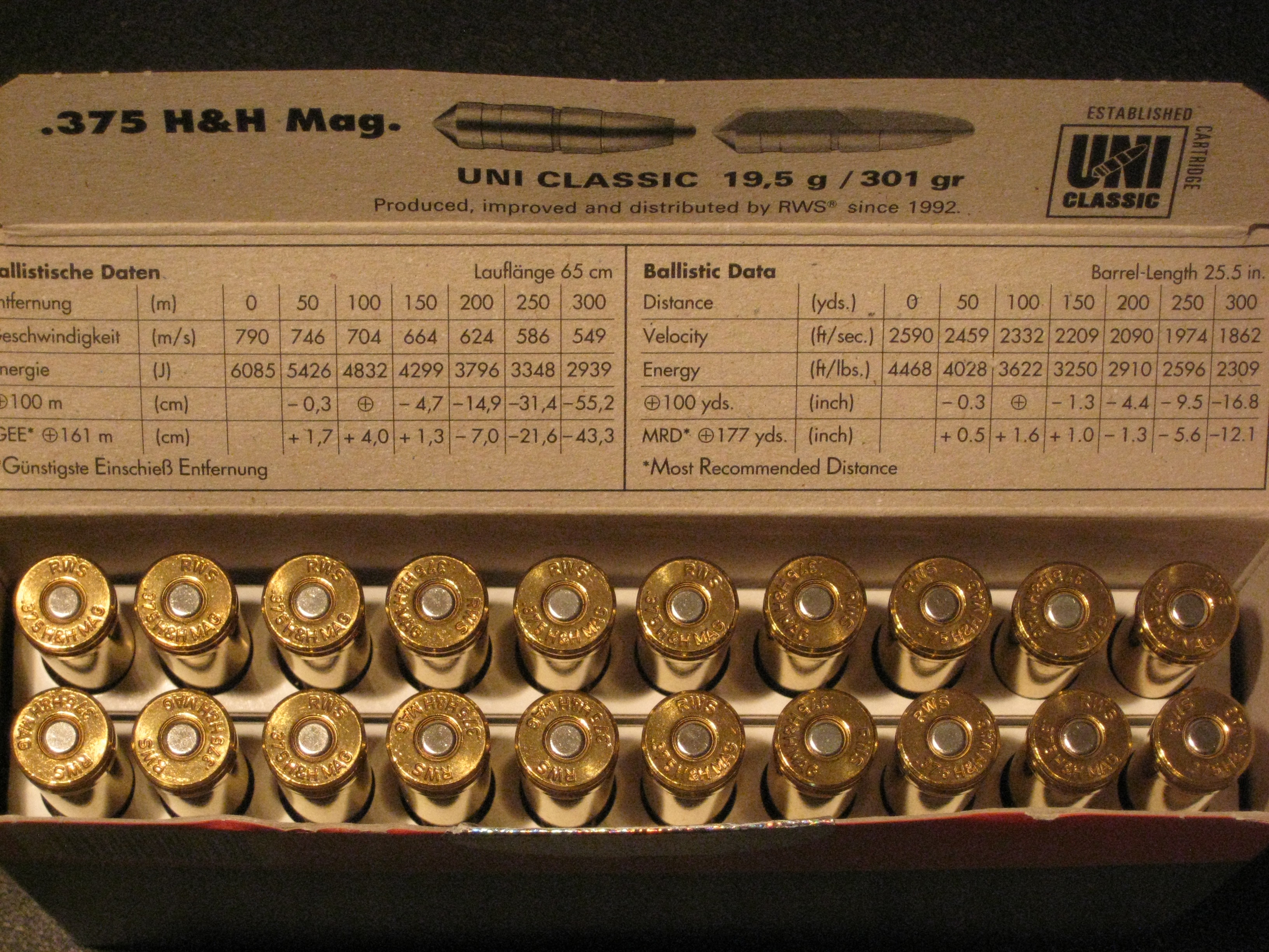 Box of .375H&H Cartridges with UNI-Classic 300-gr Bullets